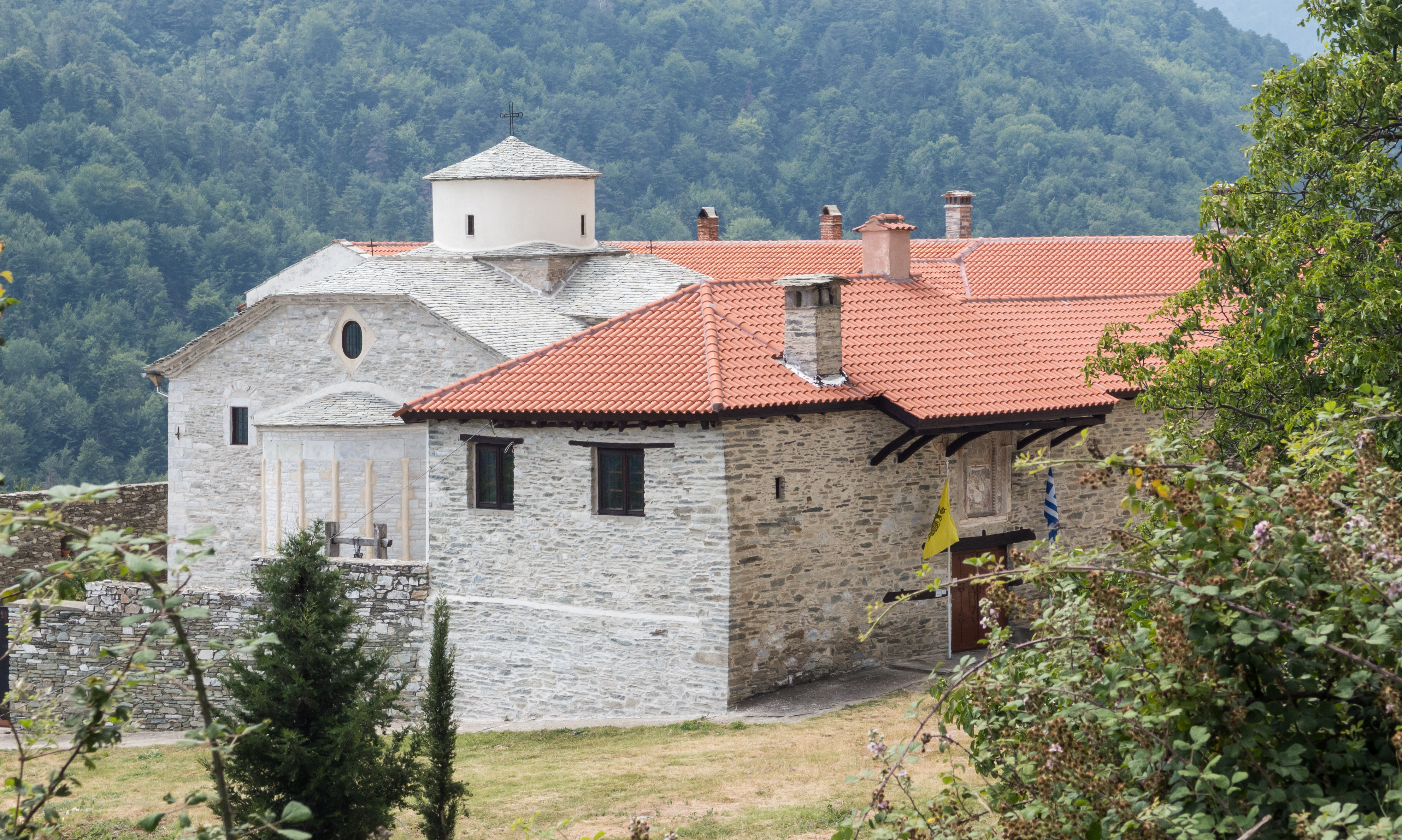 Holy Kanalon Monastery on the Olymp Mountain near Karyá (Elassona)